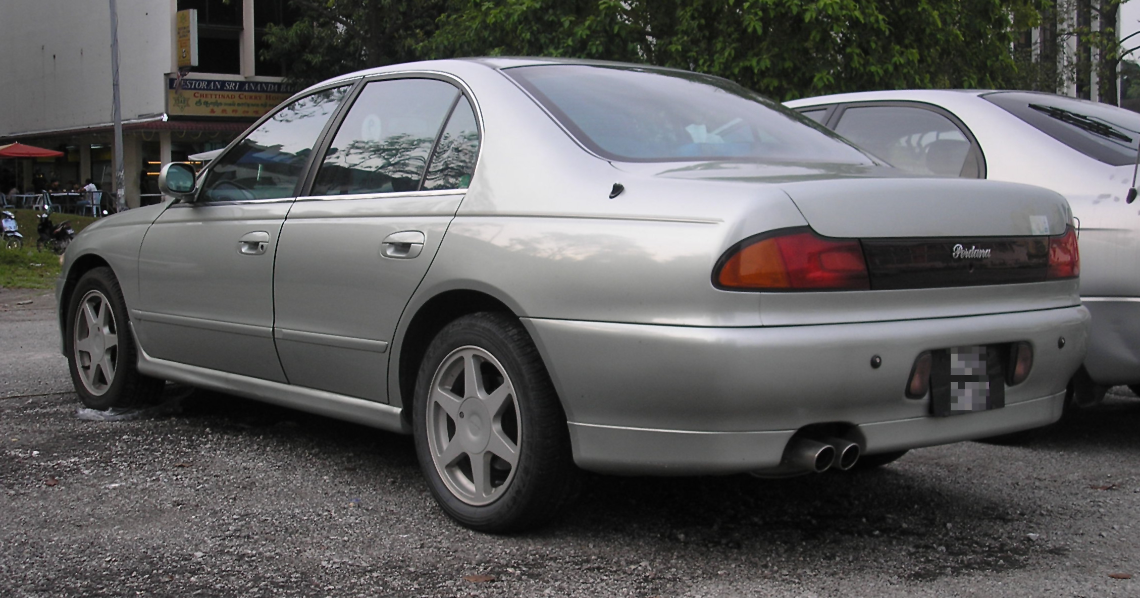 The rear of a Proton Perdana V6 in Bangsar, Kuala Lumpur, Malaysia.